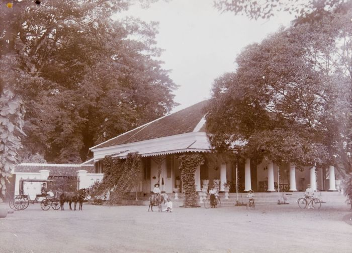 The house of civil servant Boissevain